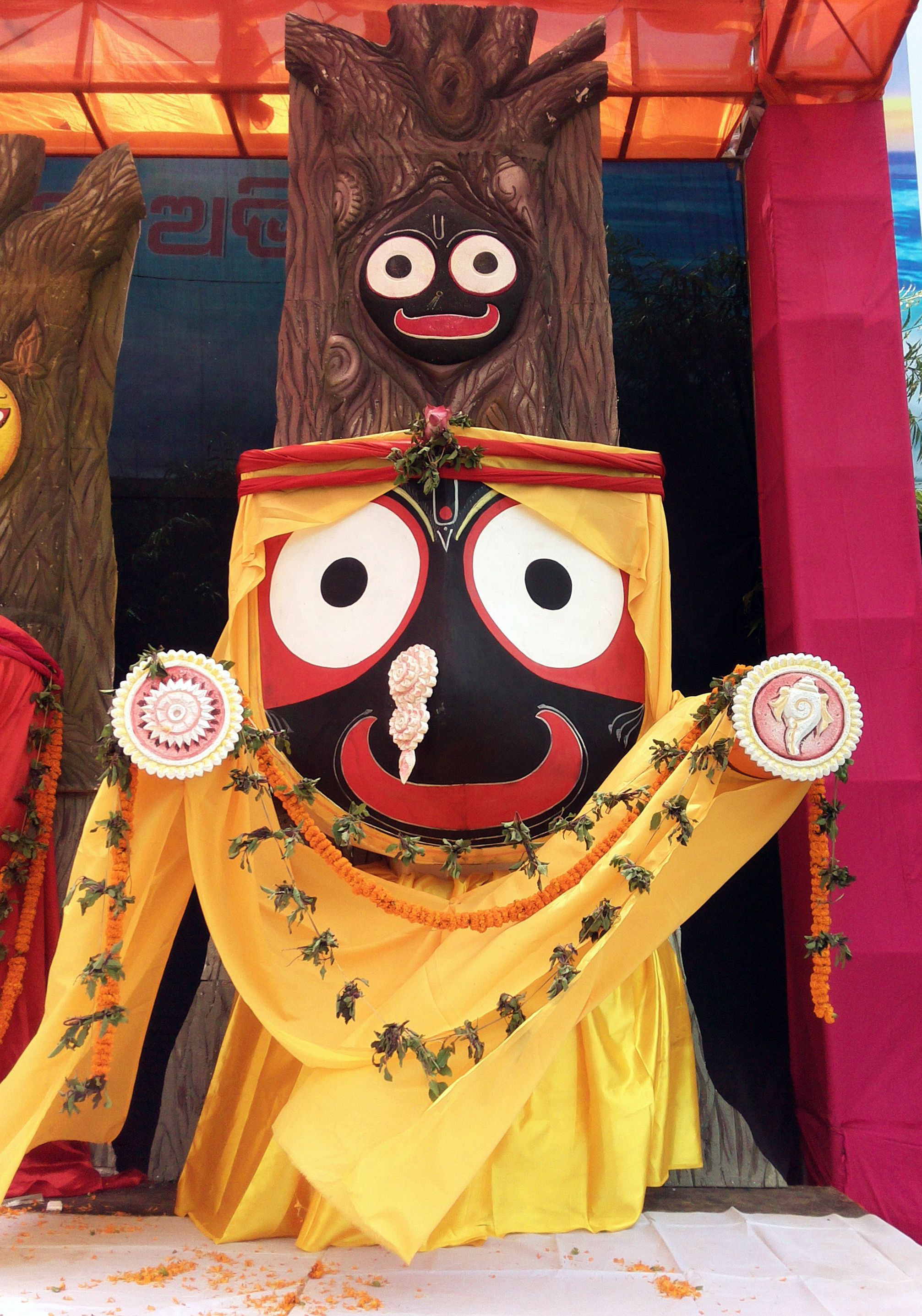 Statues of Lord Jagannath at Bhubaneswar